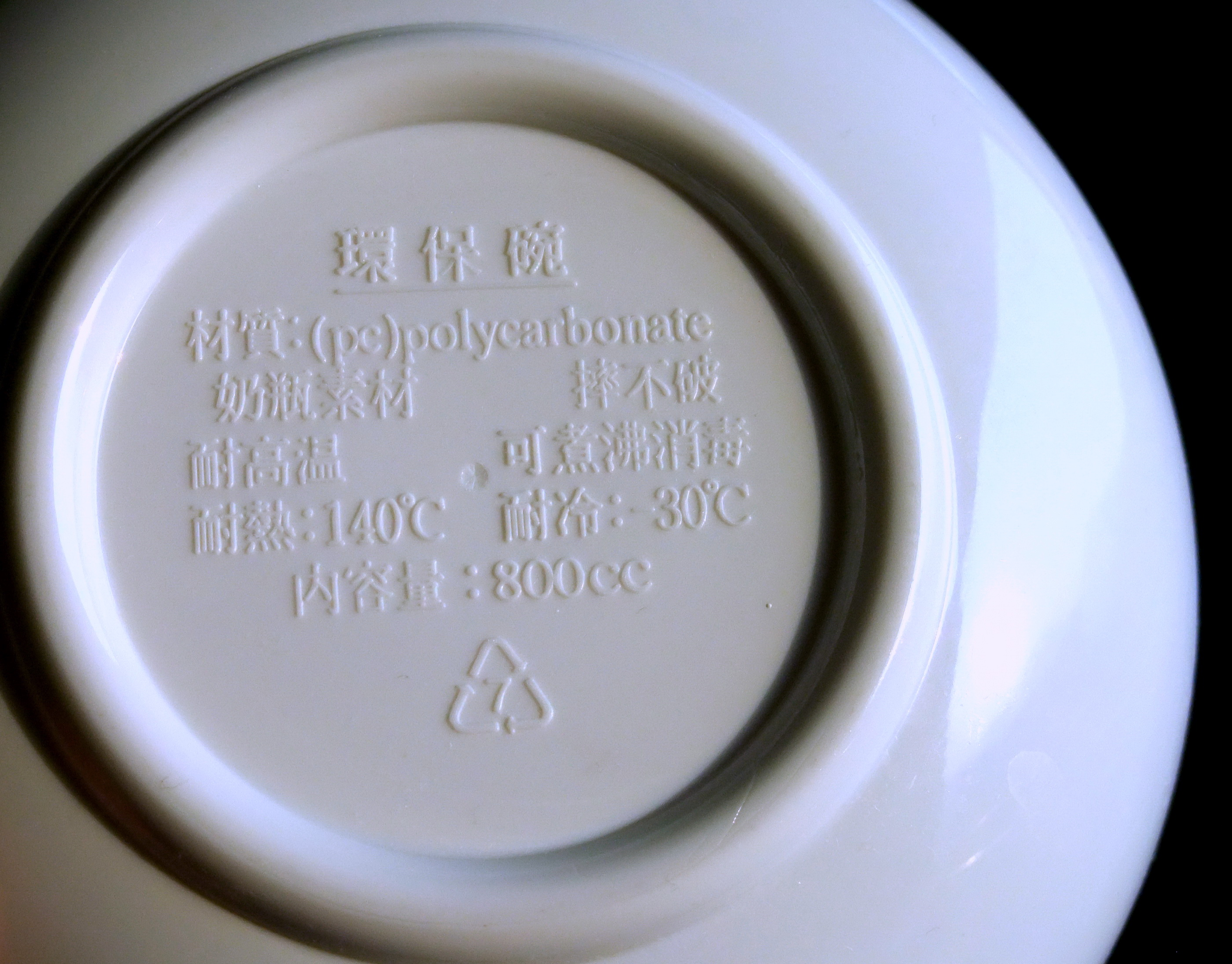 A bowl made of polycarbonate.